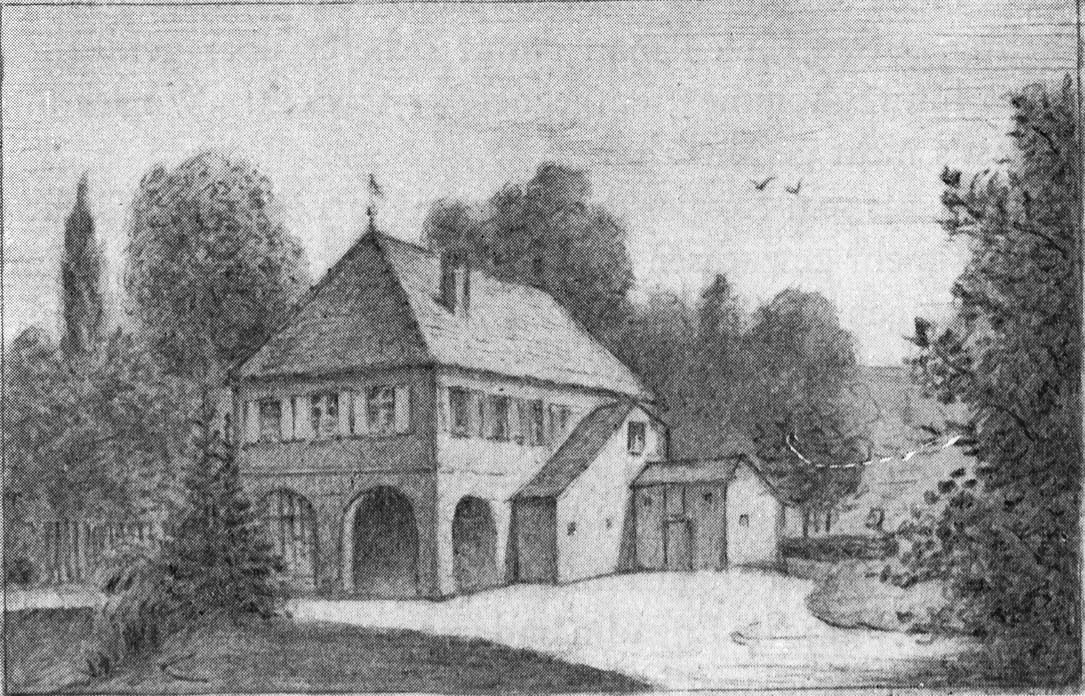 Drawing by the 11 year old Theodor Boveri: the lake house in Höfen.